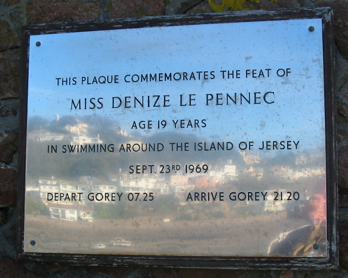 Jersey Nrf: Jèrri